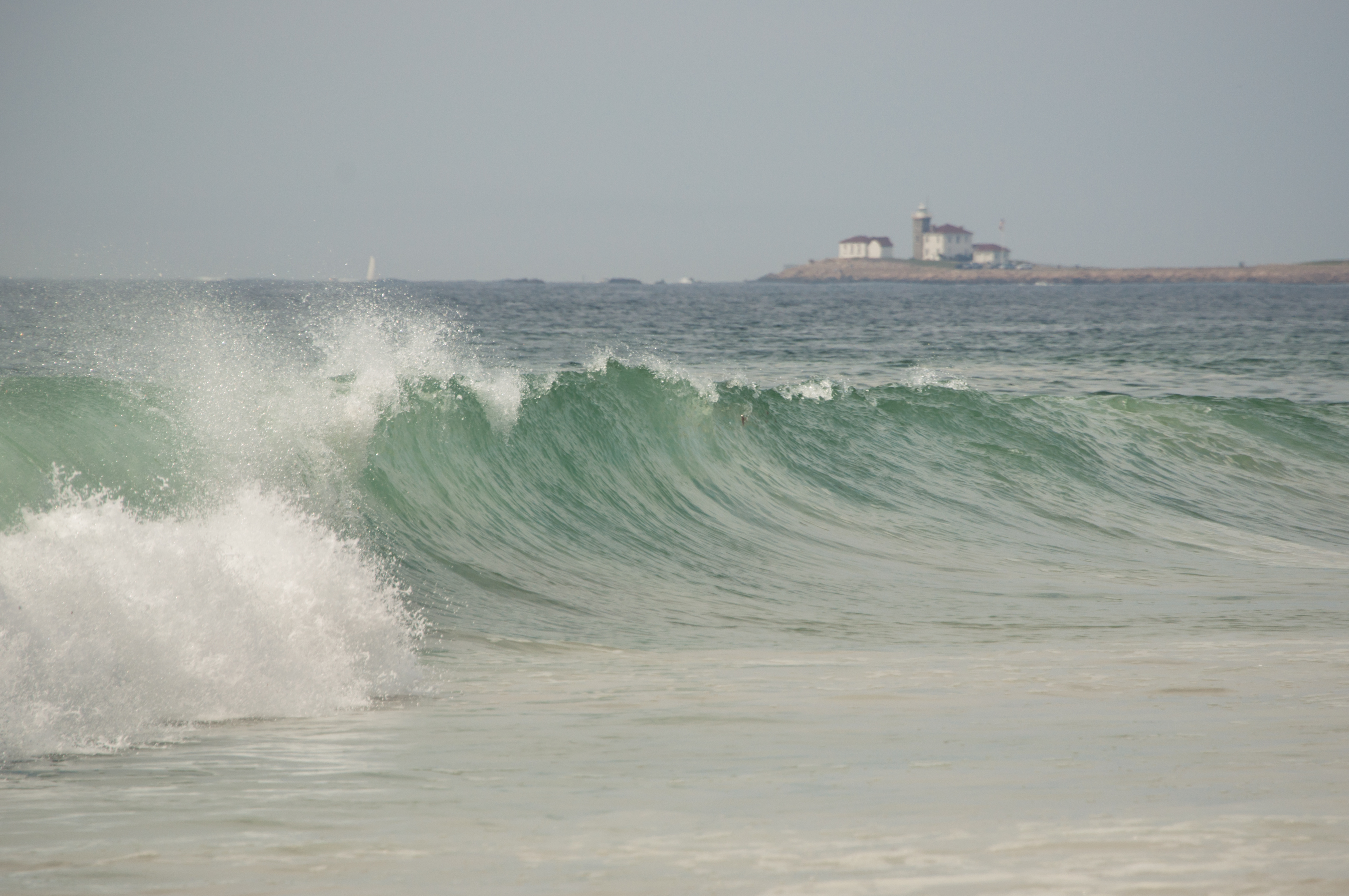 In the first week of August 2014, offshore Hurricane Bertha (2014) generated abnormally high swells along the United States East Coast, seen here at Misquamicut Beach, Rhode Island, looking toward the Watch Hill Light.